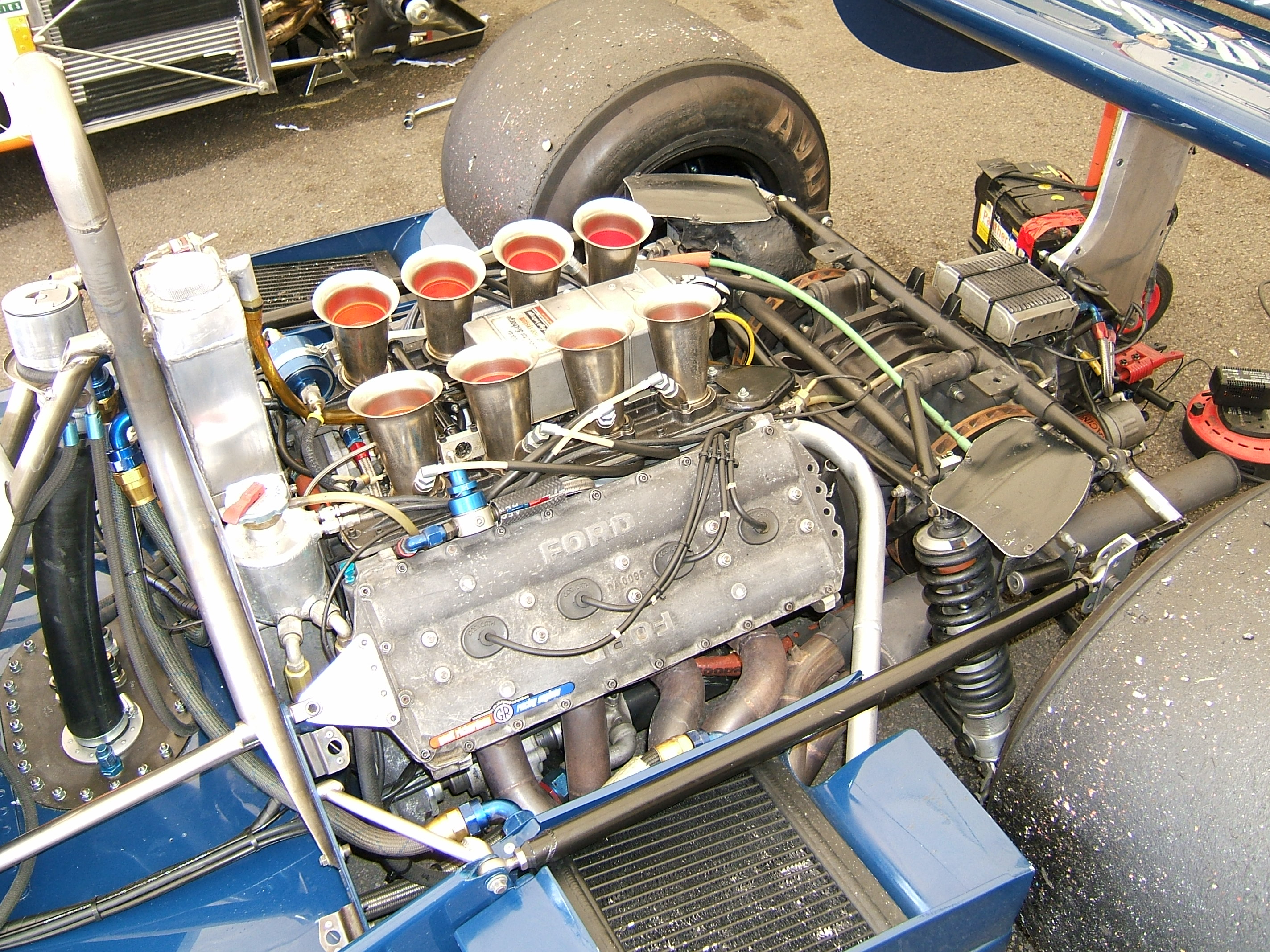 A Cosworth DFV F1 V8 engine (2993cc) installed in the back of a Tyrrell 008 car.